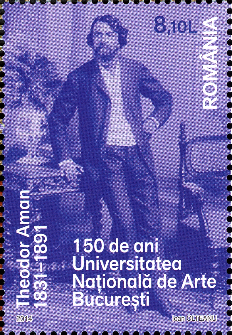 Stamps of Romania, 2014